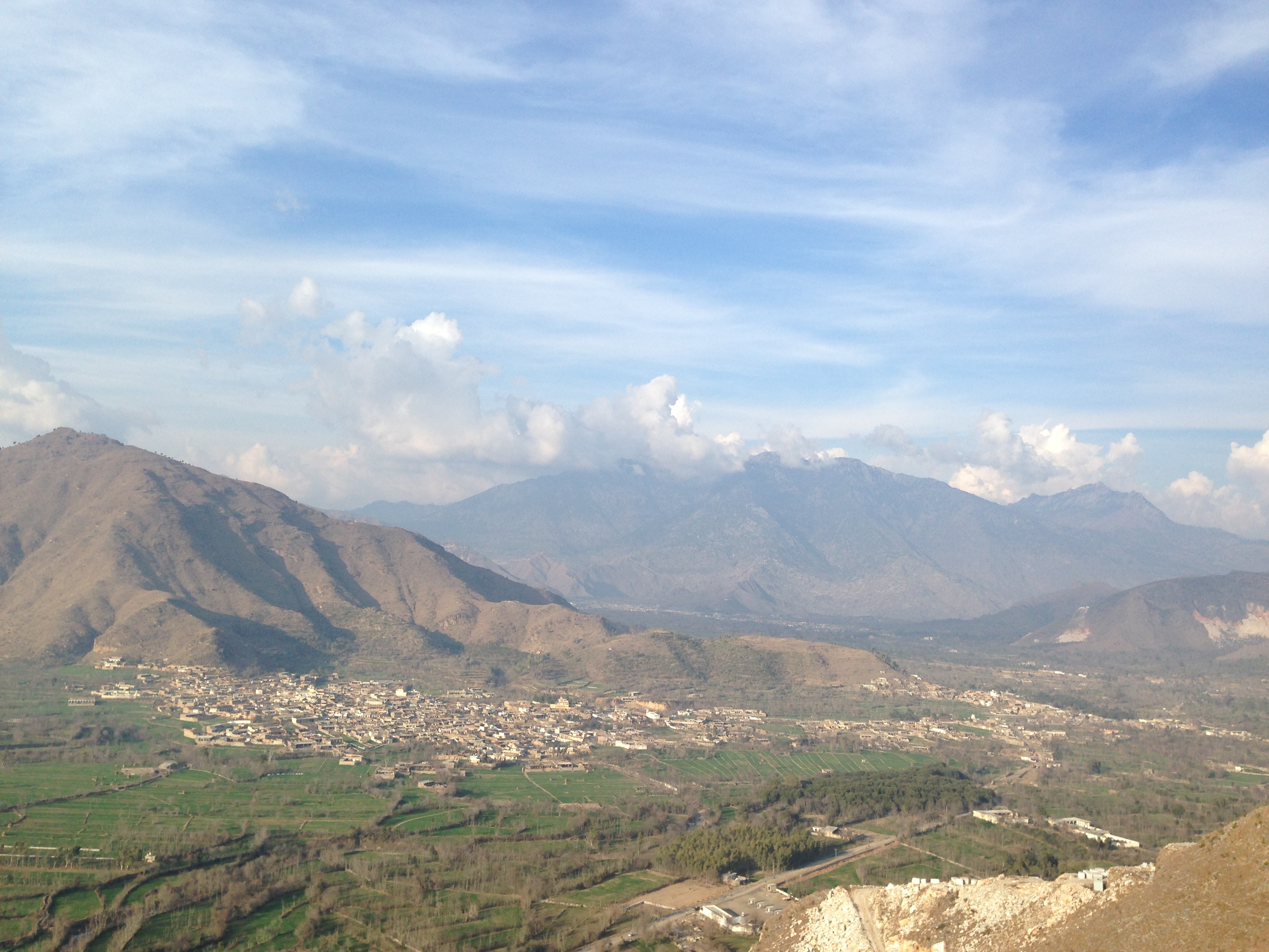 self explanatory picture of Salarzai, Buner, KPK